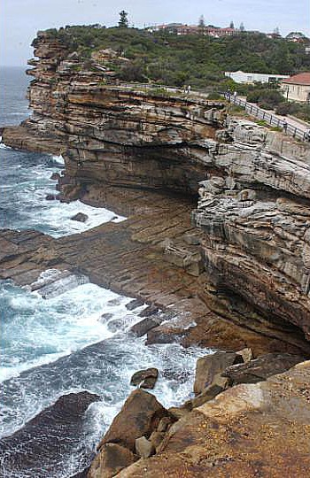 SYDNEY HARBOuR NATIONAL PARK in Australia. GAP BLUFF AREA OF THE PARK